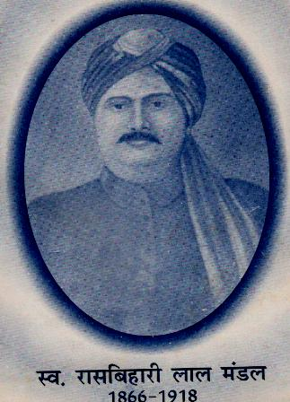 Ras Bihari Lal Mandal (1866-1918) to be used in notable yadavs (Founder of Yadav Mahasabha), leader of Indian National Freedom Movement, Leader of Indian National Congress and as father of B.P. Mandal.